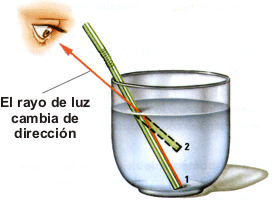 Refraction: the substance is assumed to be water